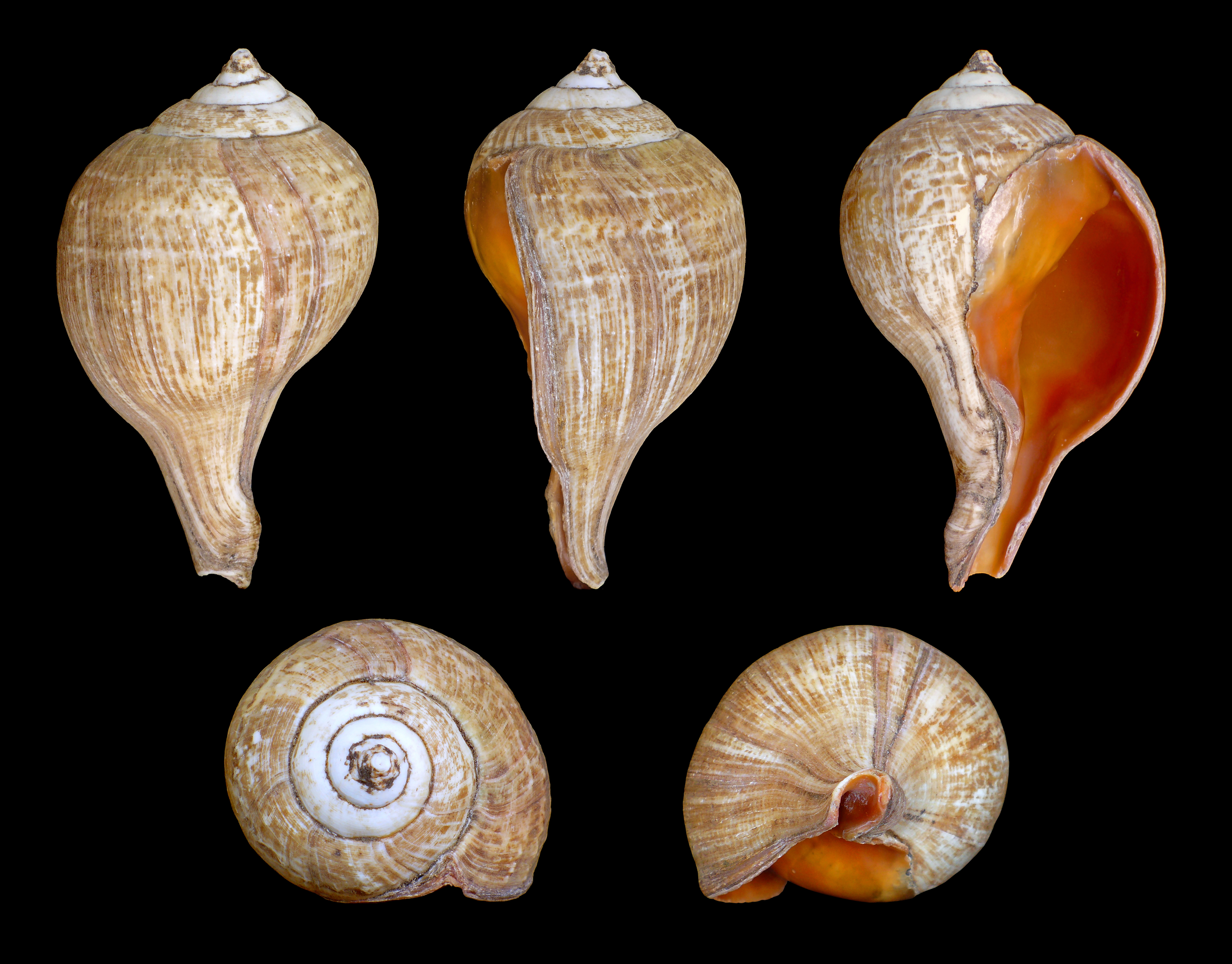 Turbinella pyrum, Turbinellidae, Great Rapa Chank; Length 12.5 cm; Originating from a beach near Beruwala, Sri Lanka; the pictured specimen is outstanding by its orange coloured aperture; Shell of own collection, therefore not geocoded.Dorsal, lateral (right side), ventral, back, and front view. This picture consists of 5 single photos. The metadata refer to the dorsal view.